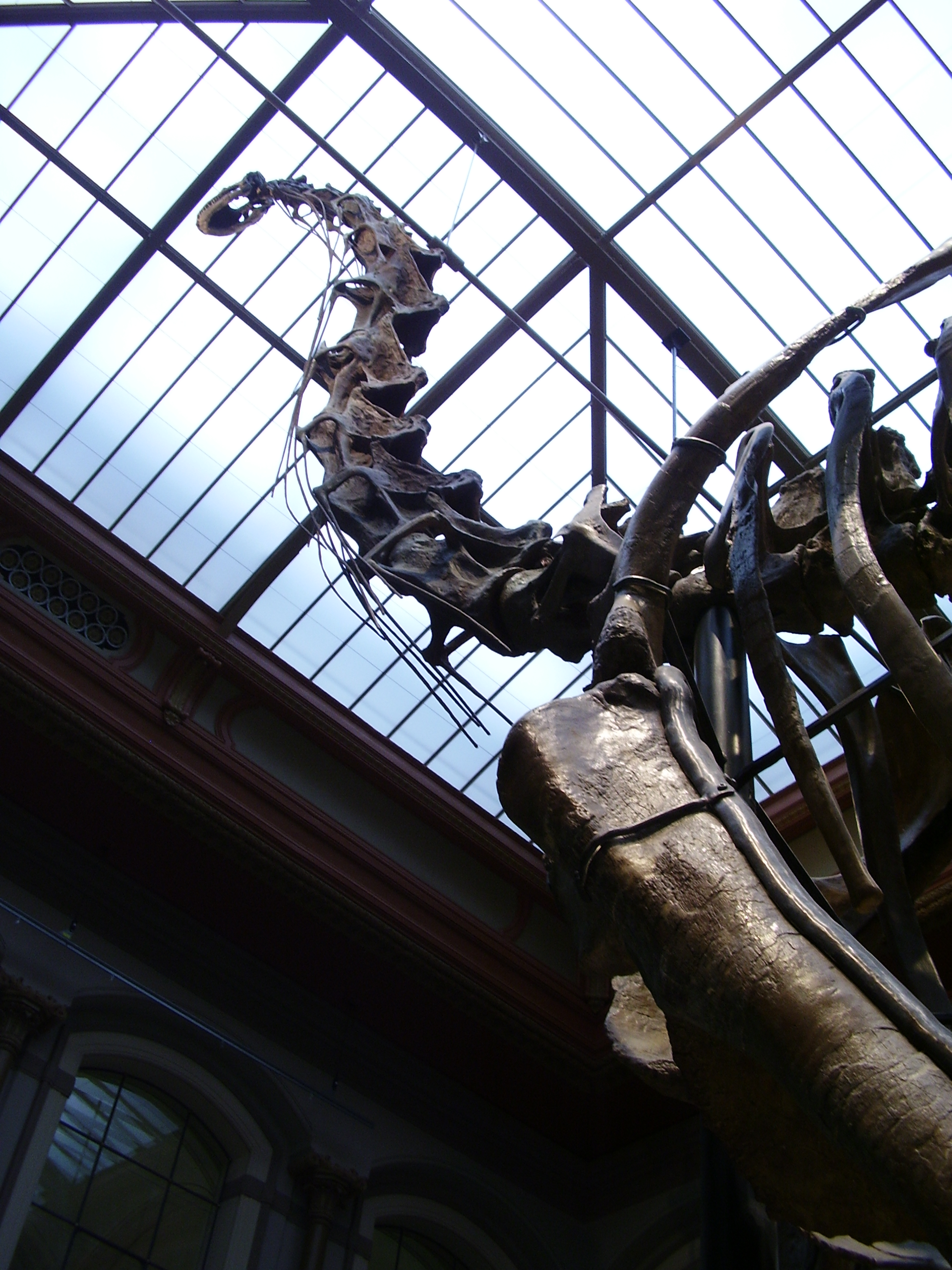 A view of giant Giraffatitan skeleton, which is over 13 meters tall.